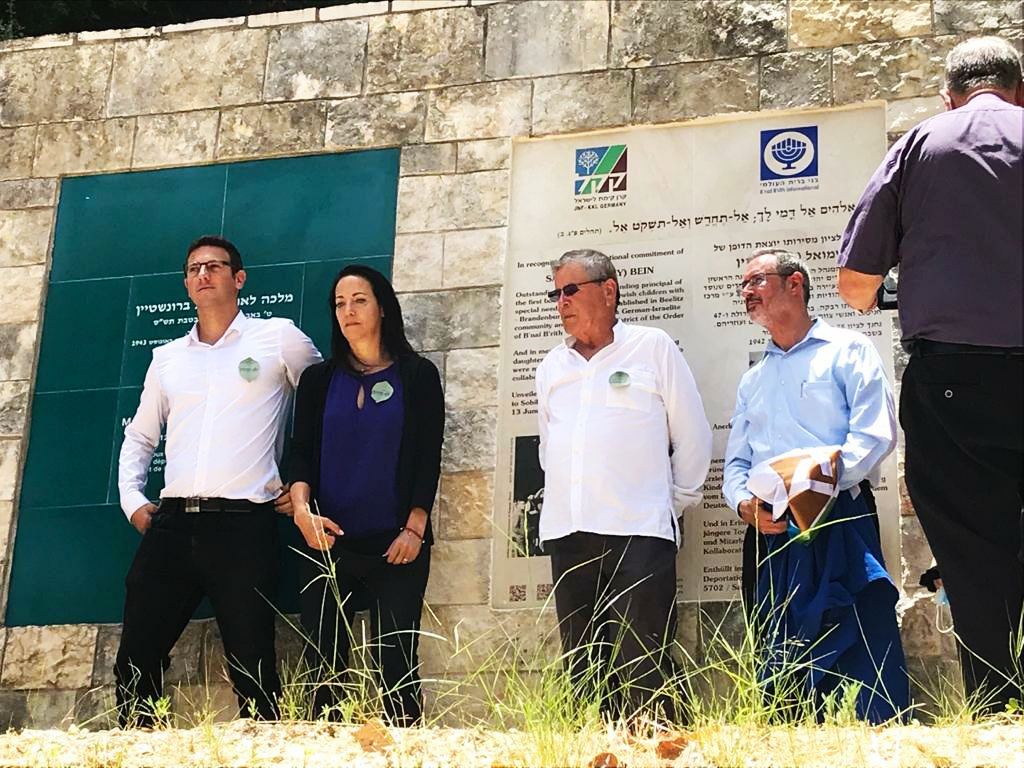 Ceremony of unveiling a plaque honoring Sally and Rebeca Bein in The Martyrs Forest initiated by Ronny Dotan and organized by KKL-JNF and B’nai B’rith.